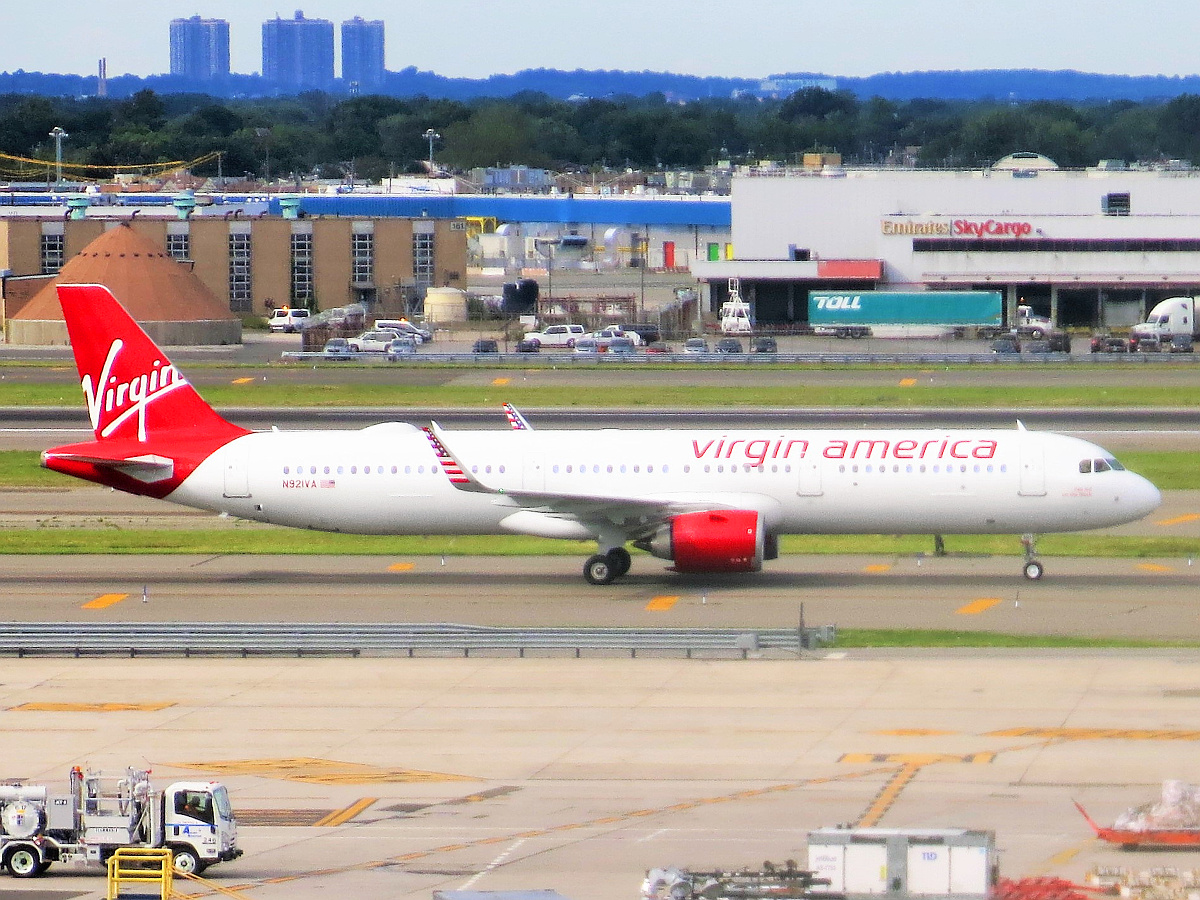 The first Airbus A321neo to enter service, Virgin America Airbus A321neo N921VA is taxiing past Terminal 5 at JFK Airport to reach its gate at Terminal 4.